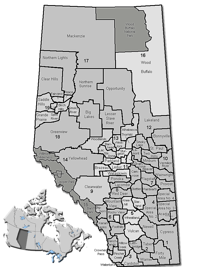 Muncipal Districts of Alberta